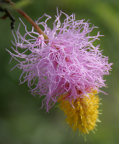 Sickle Bush, Chinese lantern tree or Kalahari Christmas tree Dichrostachys cinerea in Hyderabad , India.